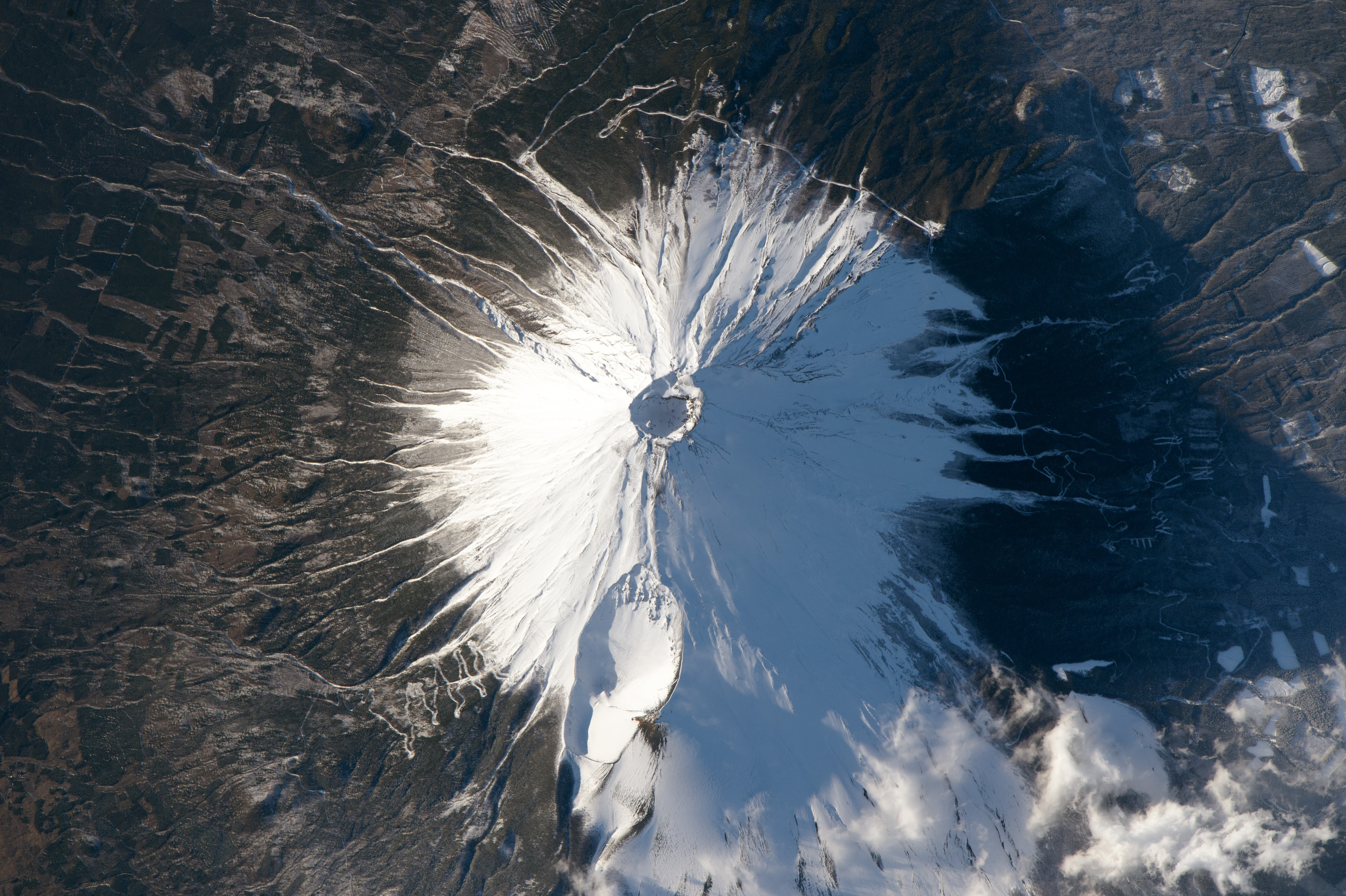 This photo of Mount Fuji in Honshu, Japan was taken from the International Space Station. Astronauts need to take advantage of oblique views and low sun angles to capture a strong sense of three dimensions in the photographs they take from the International Space Station. This detailed image was taken by an astronaut using the most powerful lens presently on board. The low afternoon sun emphasizes the conical shape of Japan’s most famous volcano. Other details enhance the sense of topography in the image—numerous gullies in the flanks and shadows cast in the summit crater and especially in the side crater (Hoei Crater, image lower center margin). Another view of the opposite side of the cone (STS107-E-5689) likewise provides a sense of topography; it was taken from the Space Shuttle Columbia 5 days before its failed reentry from orbit. Flying in space can make even the highest mountains can look flat, if the astronaut looks straight down and if the sun is high—a strange sensation for humans who know mountains from a ground-level standpoint. A slightly less detailed image of the volcano, taken with an 800 mm lens, was taken at a higher sun angle ( gives less of a 3D sense. Mount Fuji is one of Japan’s most striking symbols and tourism in the area is highly developed. The switchbacks of a climbing toll road can be seen clearly on the upper center margin of the image. As a satisfyingly symmetrical peak Fuji is extensively photographed, being visible from great distances (it is the highest peak in Japan at 3776 m, 12,389 feet) with a brilliant snow cap for many months of the year. Mount Fuji has great cultural importance in Japan. It is a hallowed mountain in the Shinto religion. Pilgrims have climbed the mountain as a devotional practice for centuries. Many shrines dot the landscape around the volcano, and are even located within the summit crater. It is now a UNESCO World Heritage Cultural Site.